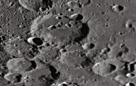 Jacobi lunar crater as seen from Earth with satellite craters labeled